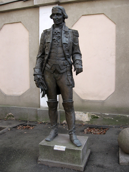 Devolan, statue by B.Eduards